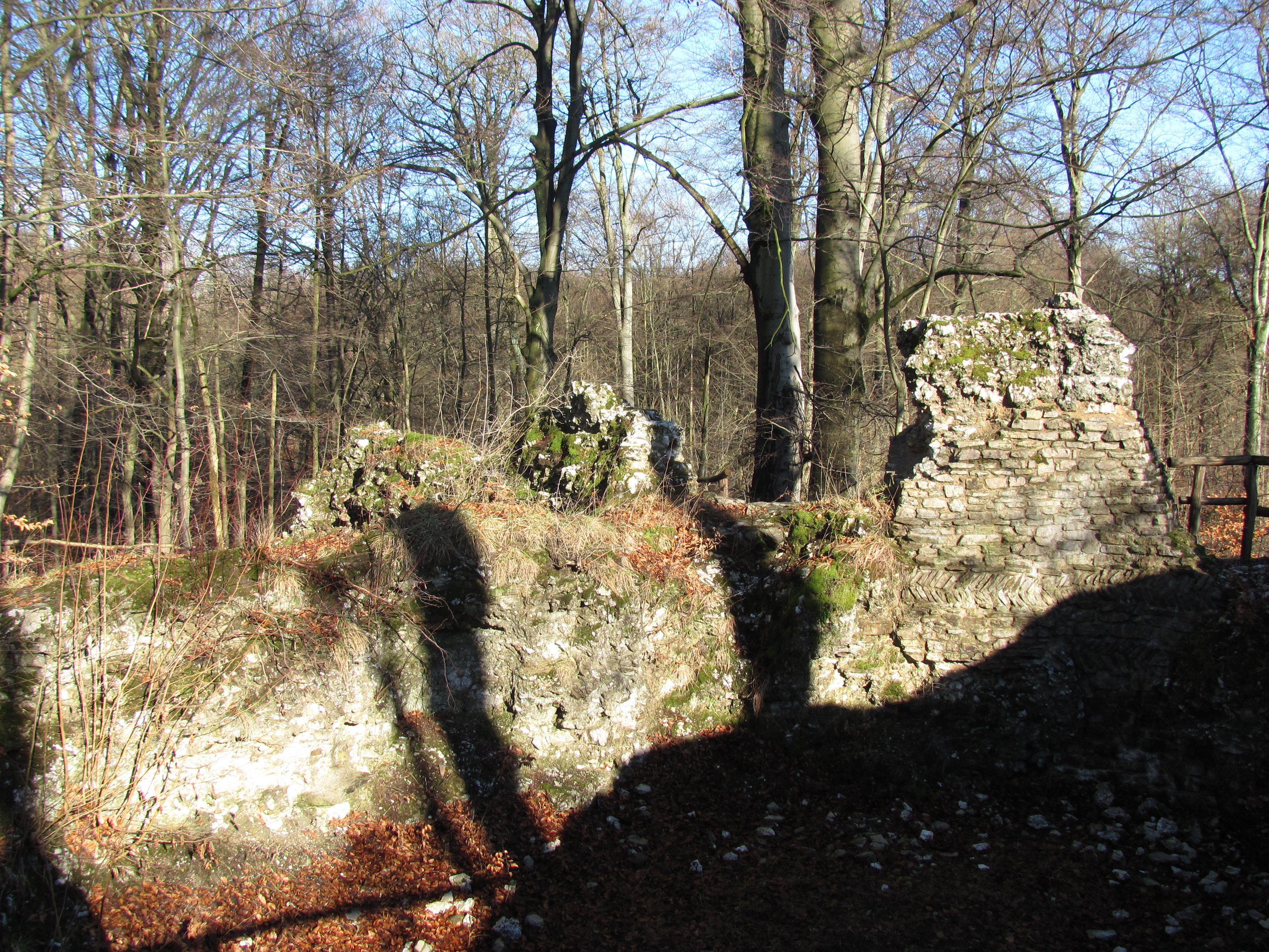 Ruins of Sachsenburg Castle, Bad Sachsa, Harz mountains, Lower Saxony, Germany